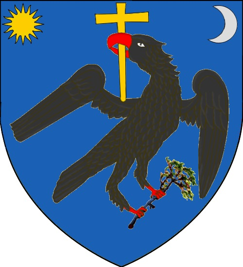 One version of the coats of arms of Wallachia, according with the works of "Comisia Naţională de Heraldică, Genealogie şi Sigilografie a Academiei române", of Alex:D & of Viuser (sse also & The engraving coat of arms of Wallachia have no colours, but a code of laws from 1640 describes the naval ensign of Wallachia: « A blue flag with in the middle, an eagle Sable bearing a cross Or in its beak. At dexter a sun with three stars Or and at senester a crescent Argent. » And the heraldic written or painted sources describe the coat of arms of Wallachia as: « Azure, an eagle Sable, head towards dexter, holding a cross Or in its beak and siting on a juniper branch Vert. At dexter a moving sun Or, at senester a crescent Argent. »